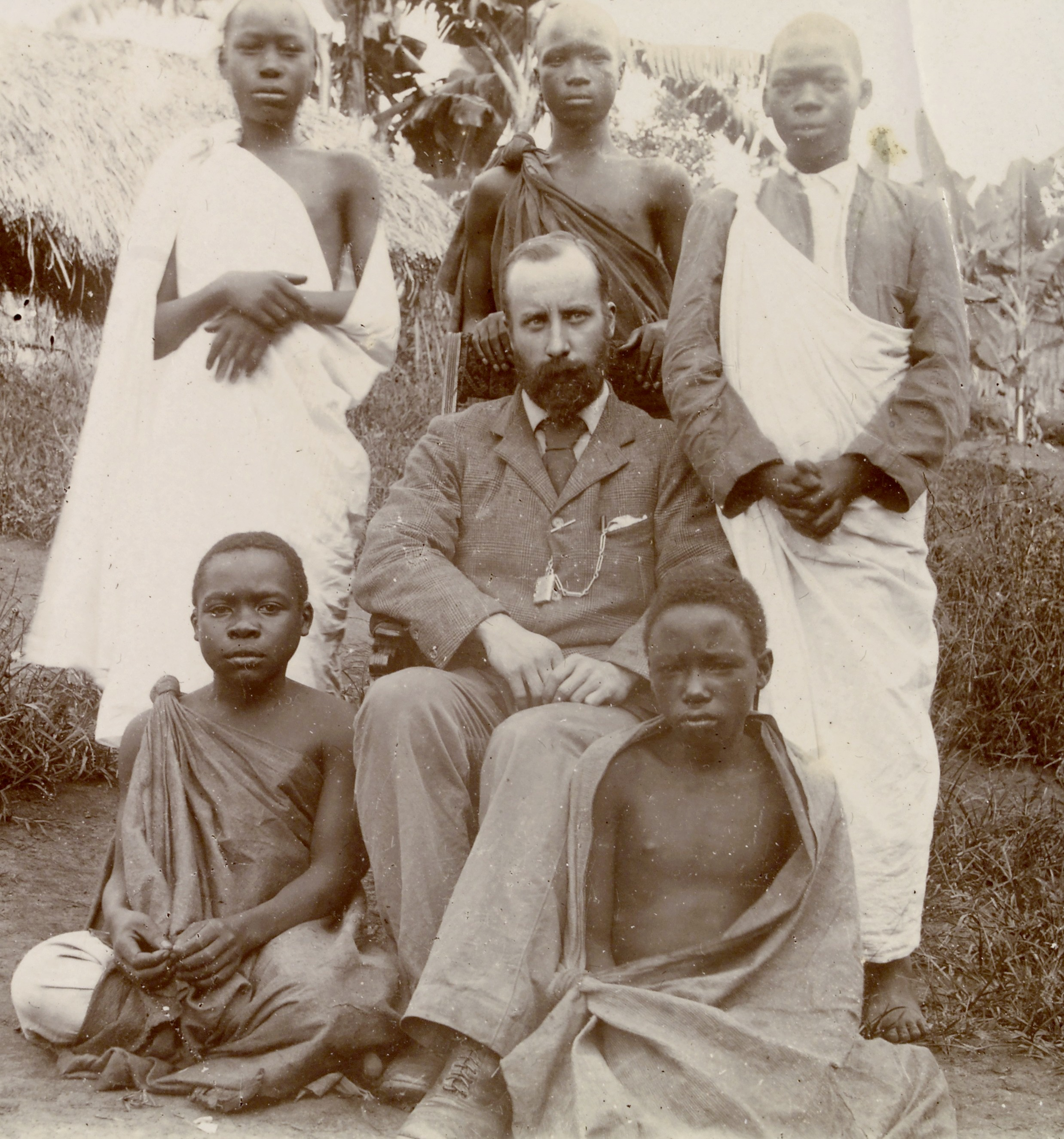 Sir Albert (Ruskin) Cook with a group of native boys, (Top L to R) Behindi, Simoni, Mayanya, (Seated, L to R) Yosen and Albert, Mengo Hospital, Uganda